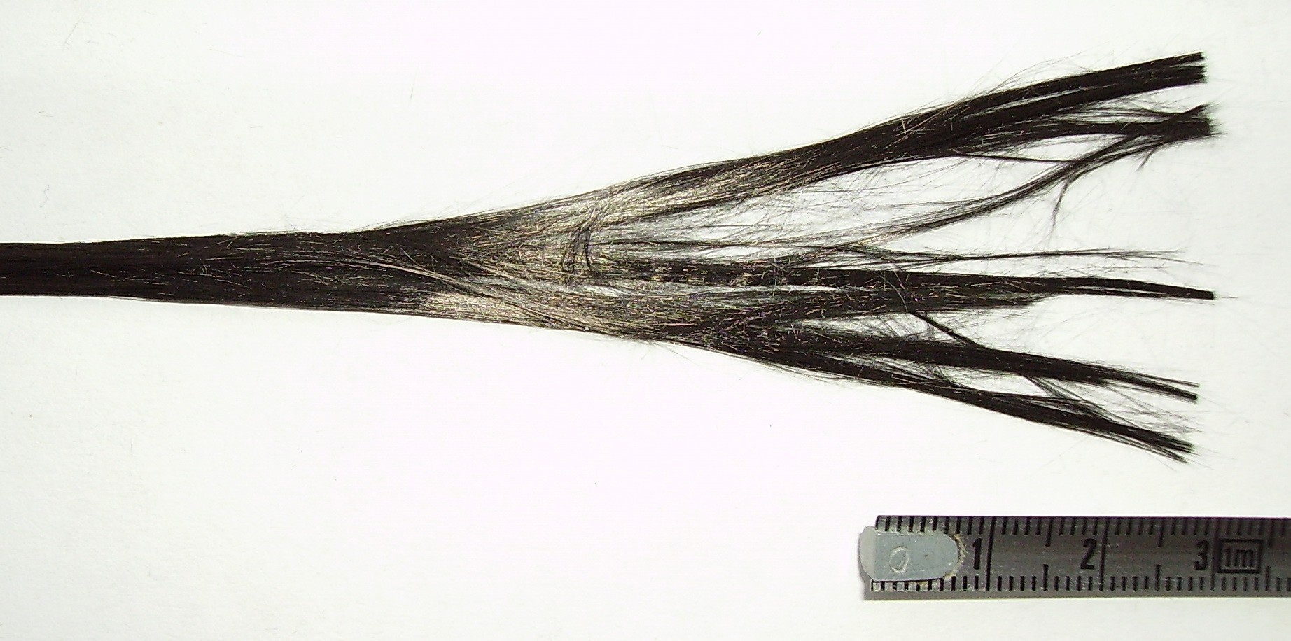 Carbon fiber